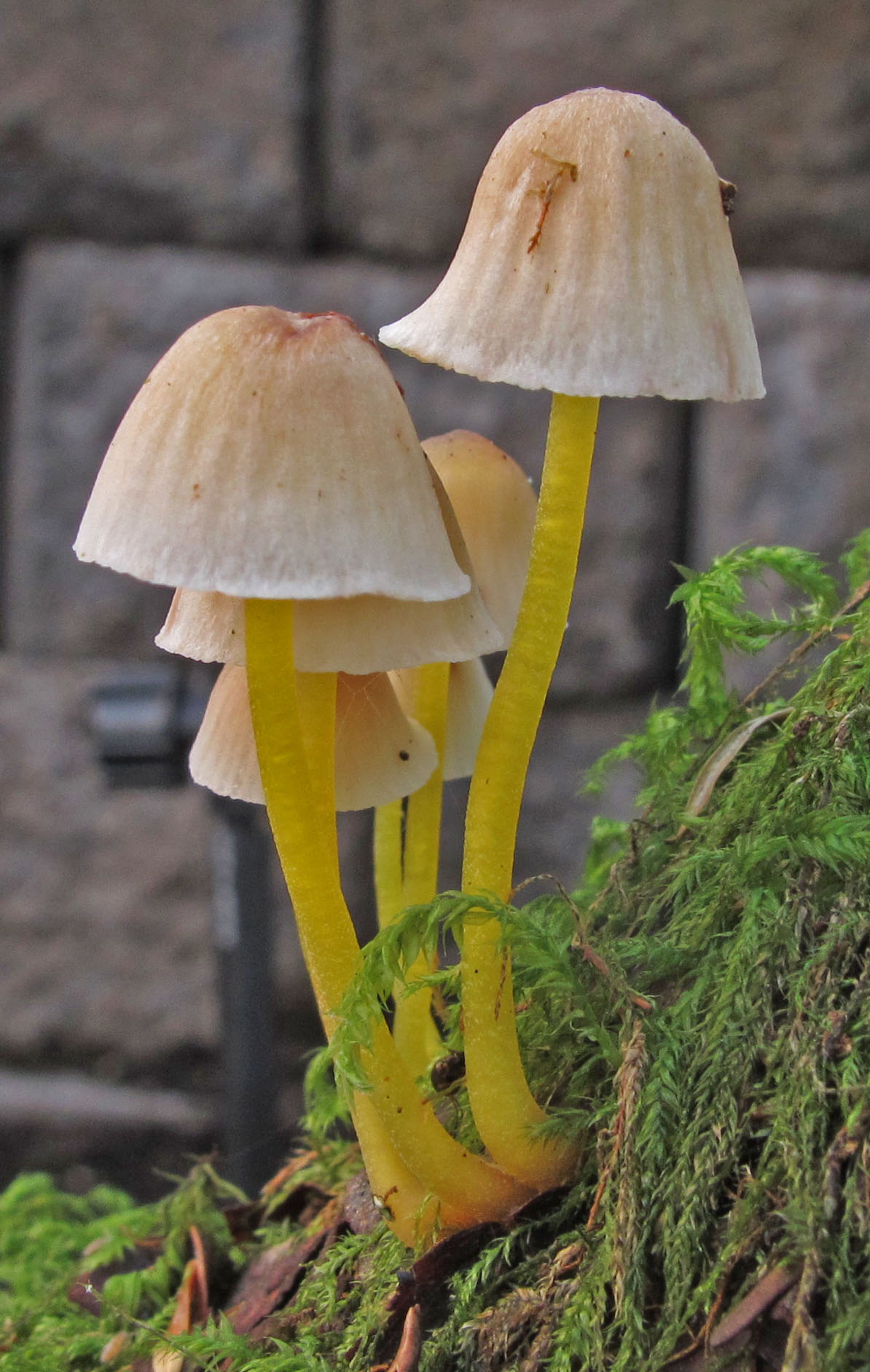 Mycena epipterygia (Scop.) Gray Image location: Larch Mountain, Multnomah Co., Oregon, USA Growing on dead branches, logs, stumps, in a coniferous forest. Found it in countless places today. Shorter-stemmed than what I was seeing a month ago. Odor the same—-slightly farinaceous. Stem always strong yellow. Typical spores 9.5-10 × 6.5-7 microns. Which of the numerous varieties of epipterygia this one is? Maybe we’ll find out later. Recognized by sight For more information about this, see the observation page at Mushroom Observer.